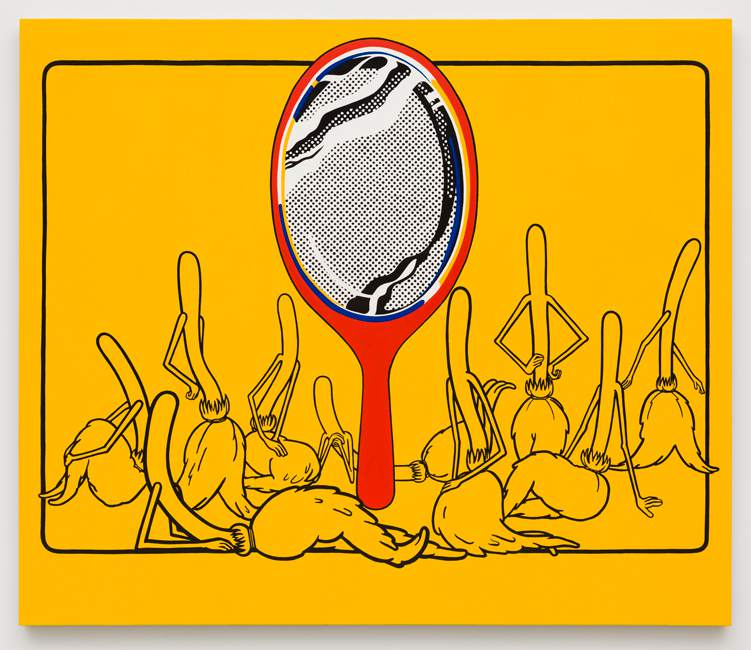 oil on linen